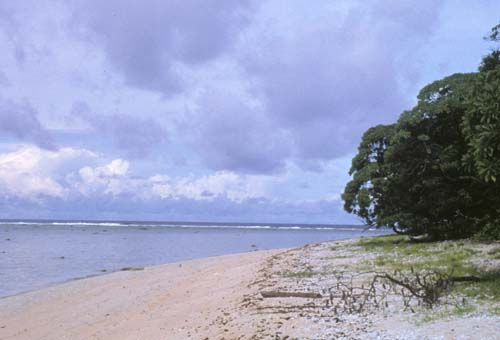 West coast beach of Dongosaro (Sonsorol) Island, Southwest Islands of Palau. Original field note: Beautiful beaches for green turtle nesting (turtles much eaten by locals).